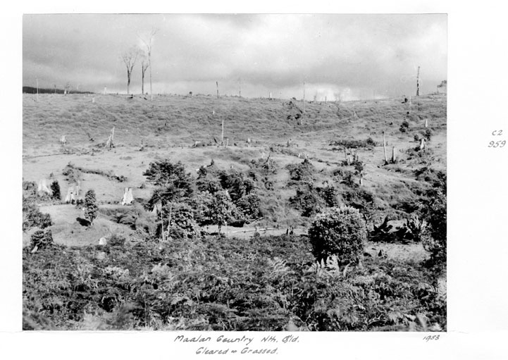 Cleared and Grassed, Maalan Country, North Queensland.